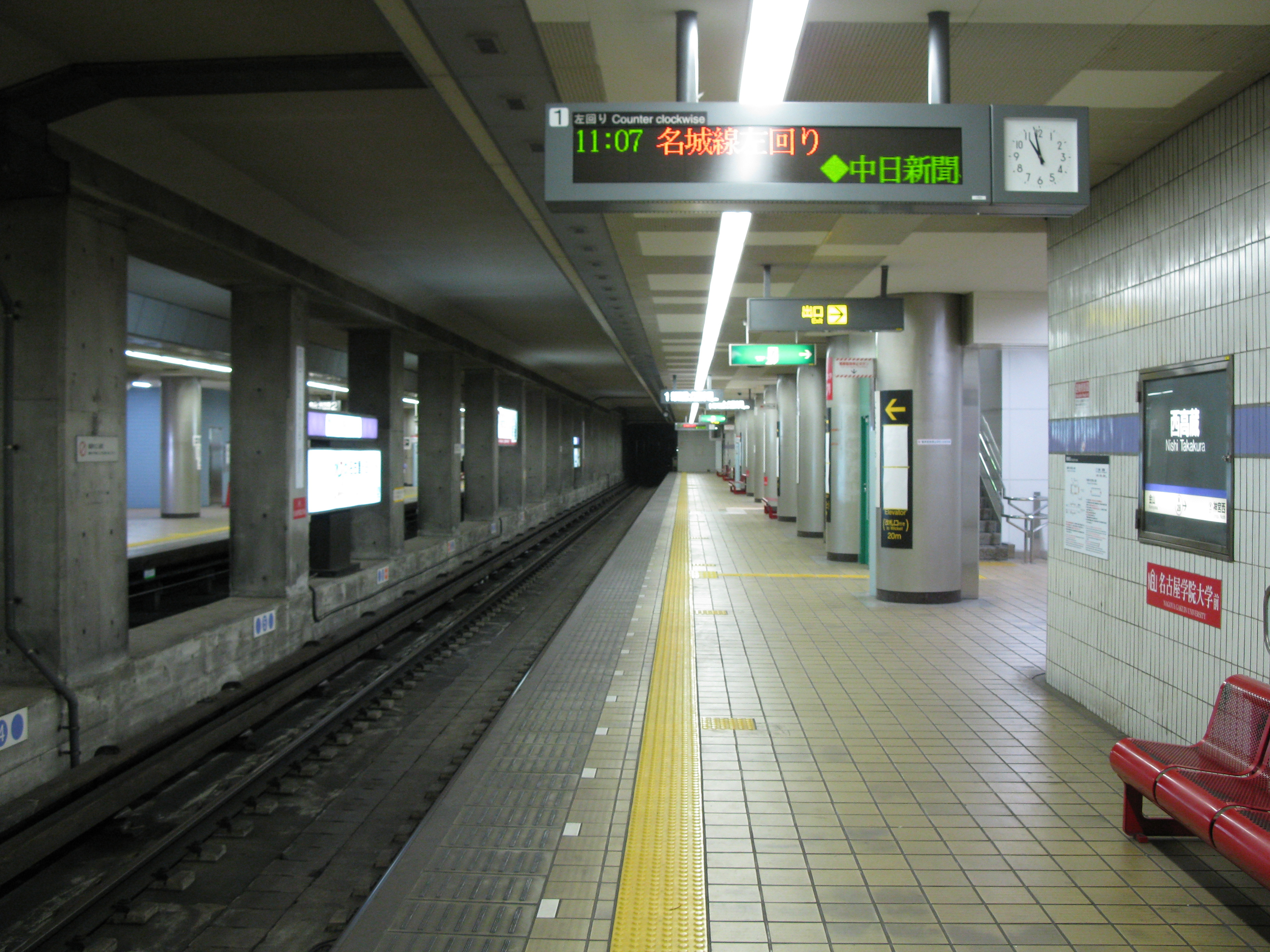 Nishi Takakura Station platform (Nagoya Municipal Subway Meijō Line)